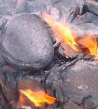 Image of naturally burning oil shale on a coast near Kimmeridge, on 18th August 2000.[1]